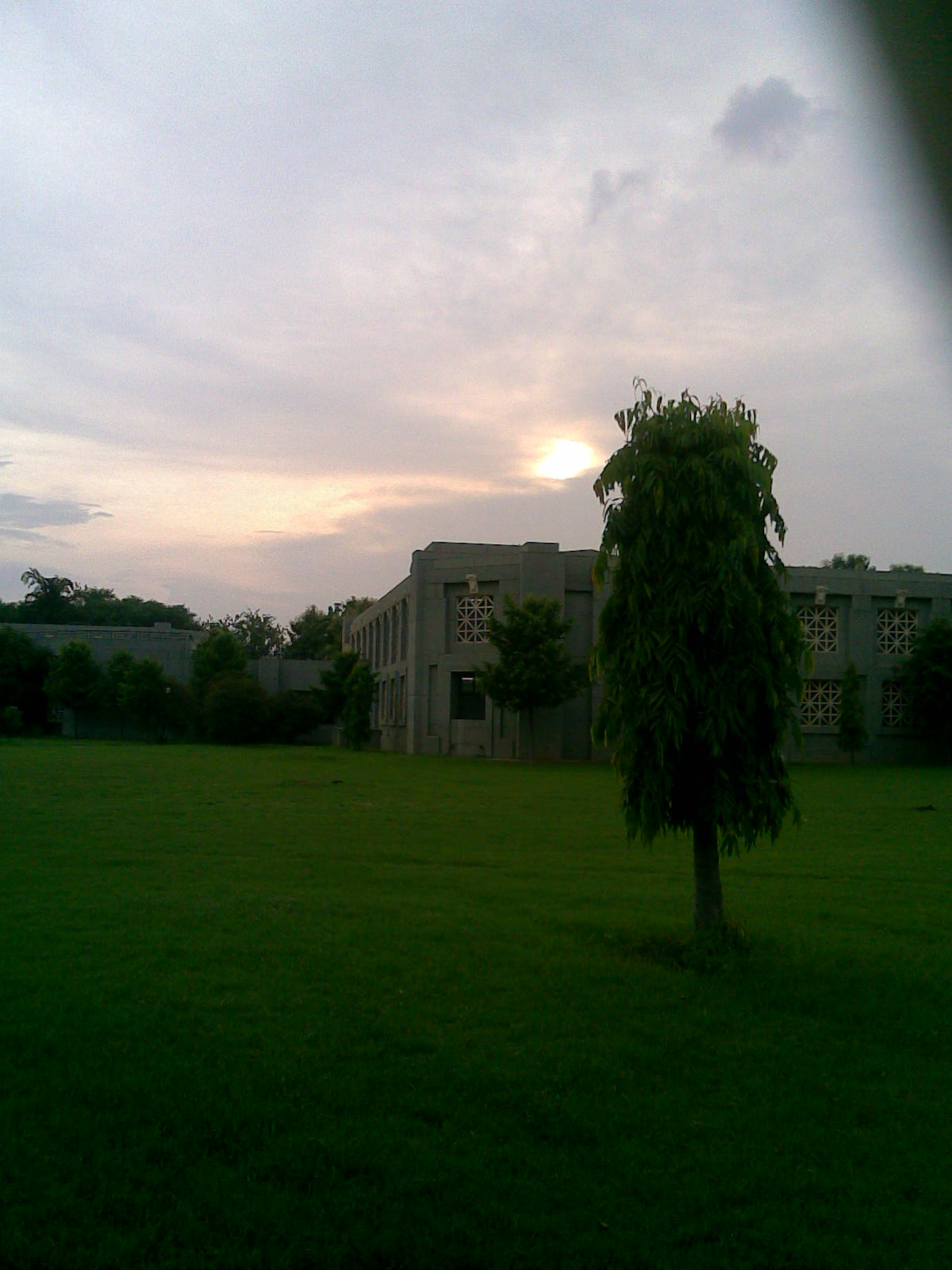 IIM Lucknow Campus in the evening